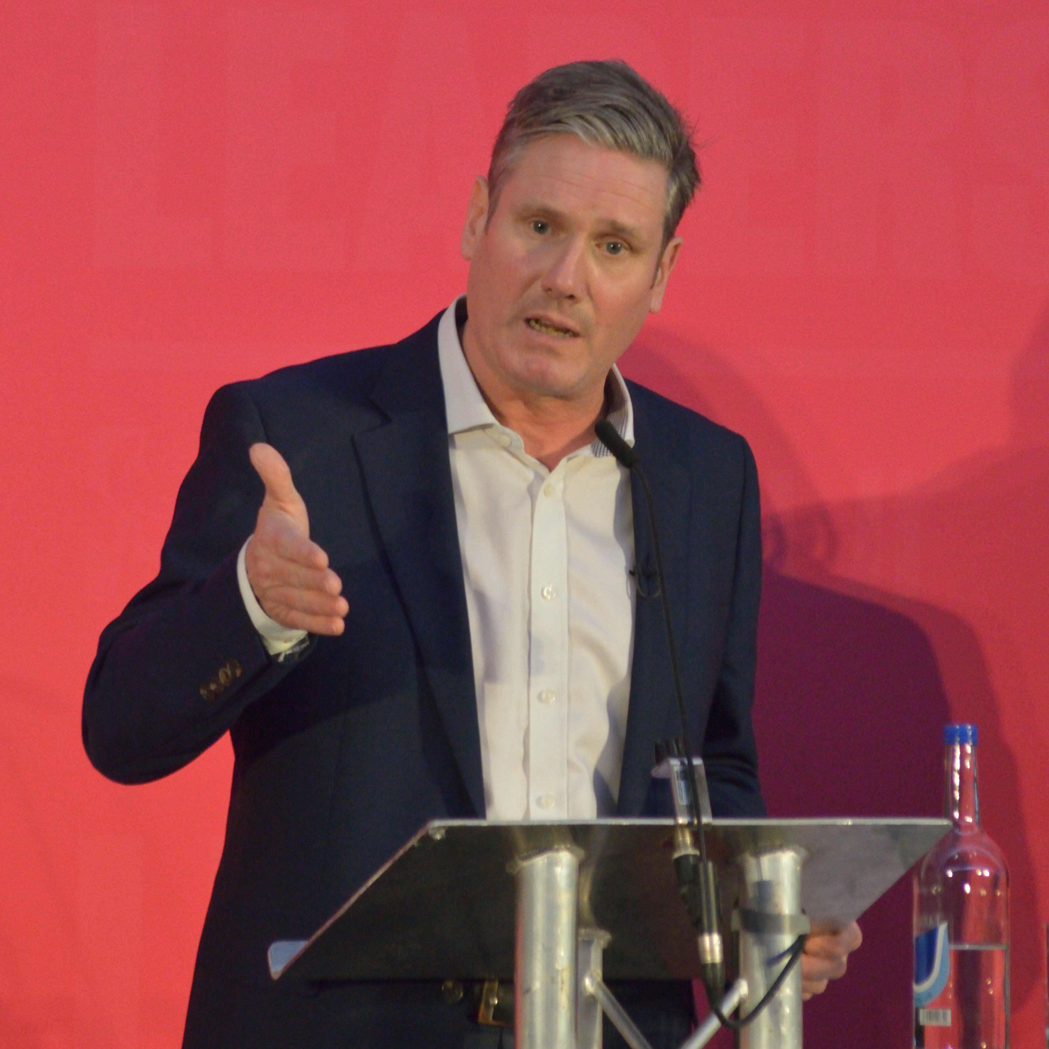 Keir Starmer speaking at the 2020 Labour Party leadership election hustings in Bristol on the morning of Saturday 1 February 2020, in the Ashton Gate Stadium Lansdown Stand.